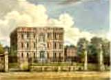 Front of Silver Hall, Isleworth, on King's Highway to Teddington, 1800.